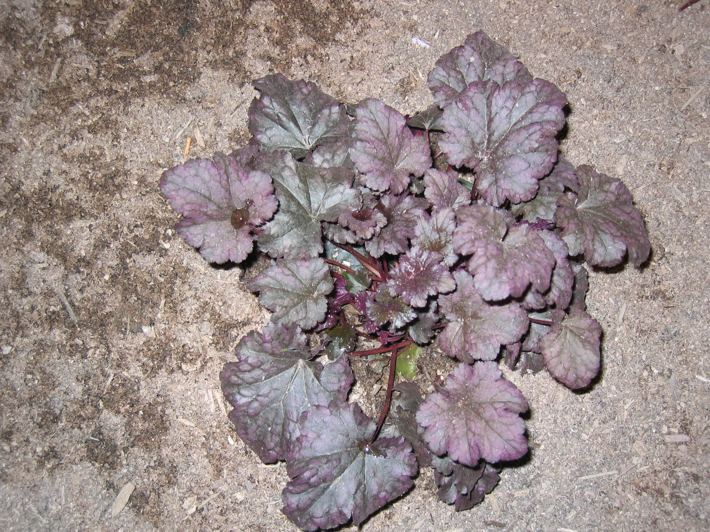 Author: User:Jkelly Description: Heuchera 'Starry Night', on display at a garden show. Date: March 24 2006